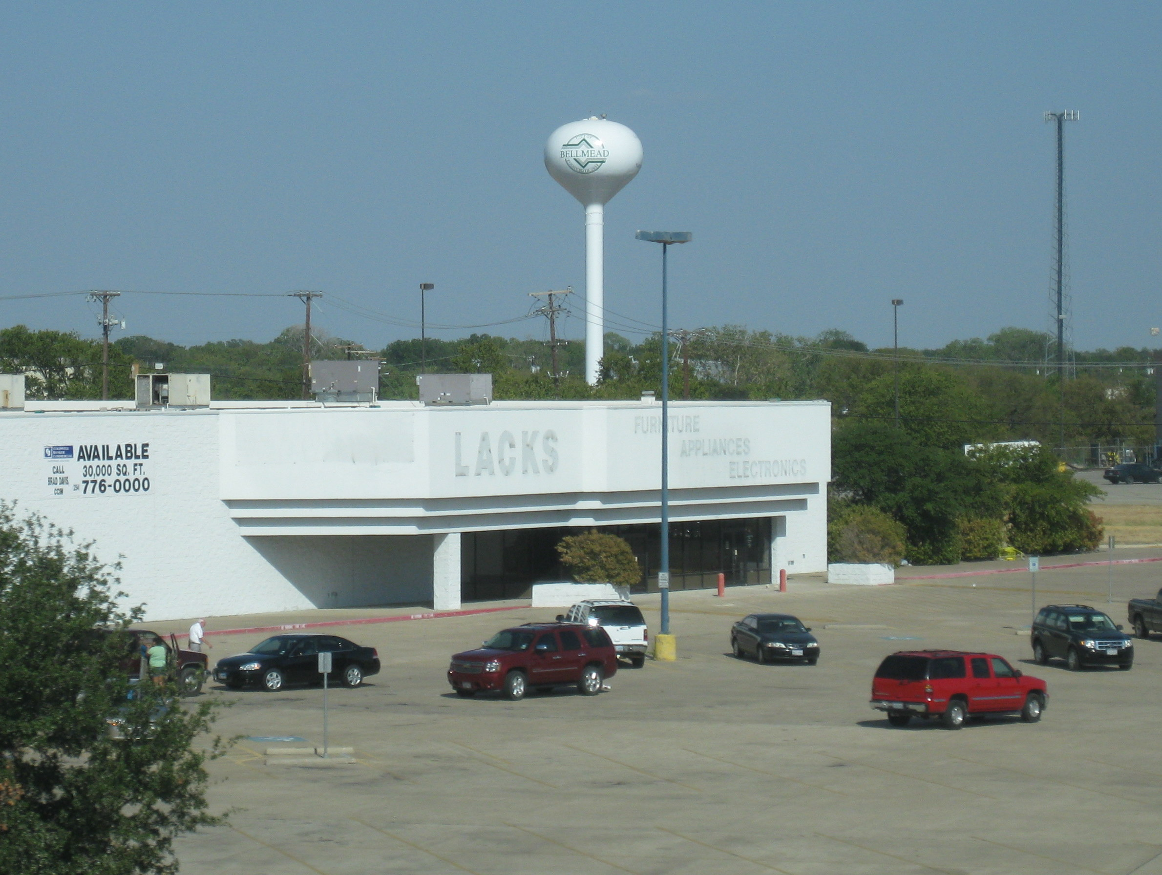 Bellmead, Texas